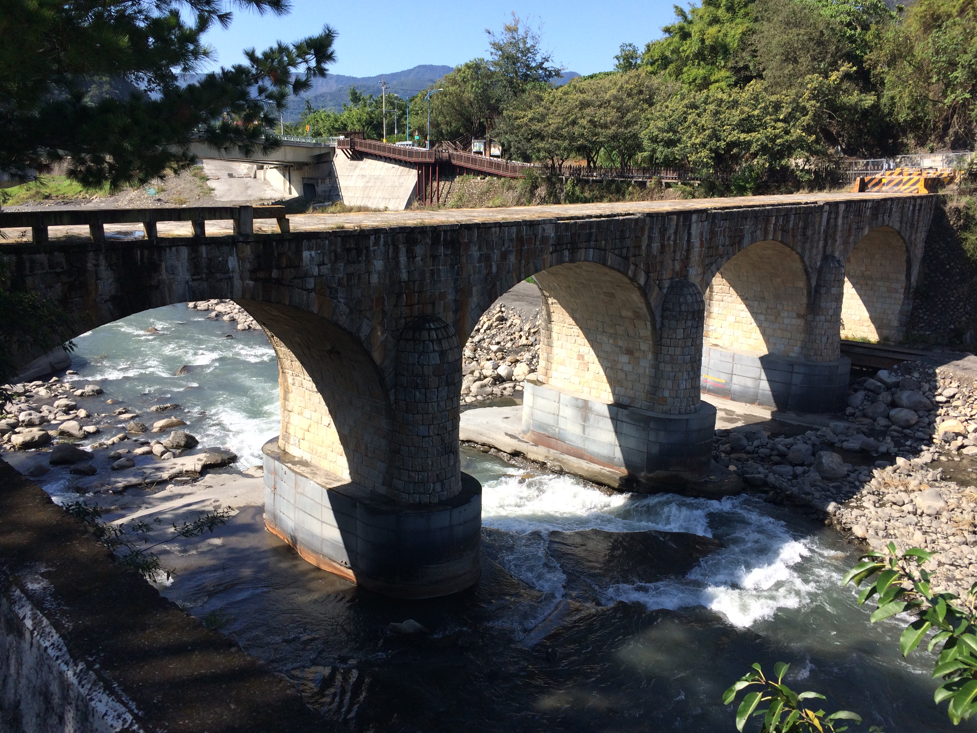 Glutinous Rice Bridge over the Beigang River.